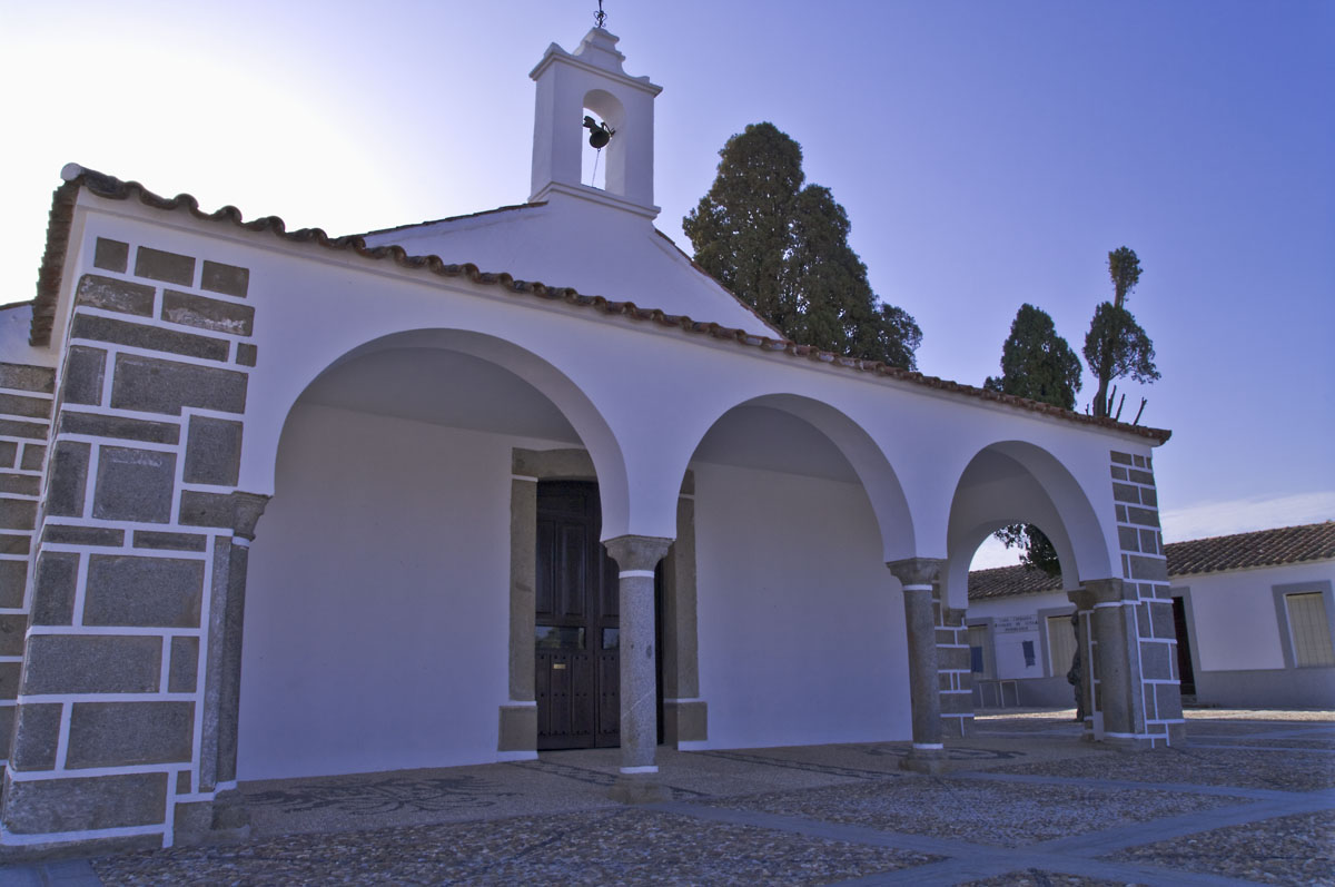 Ermita Virgen de La Luna de los Pedroches